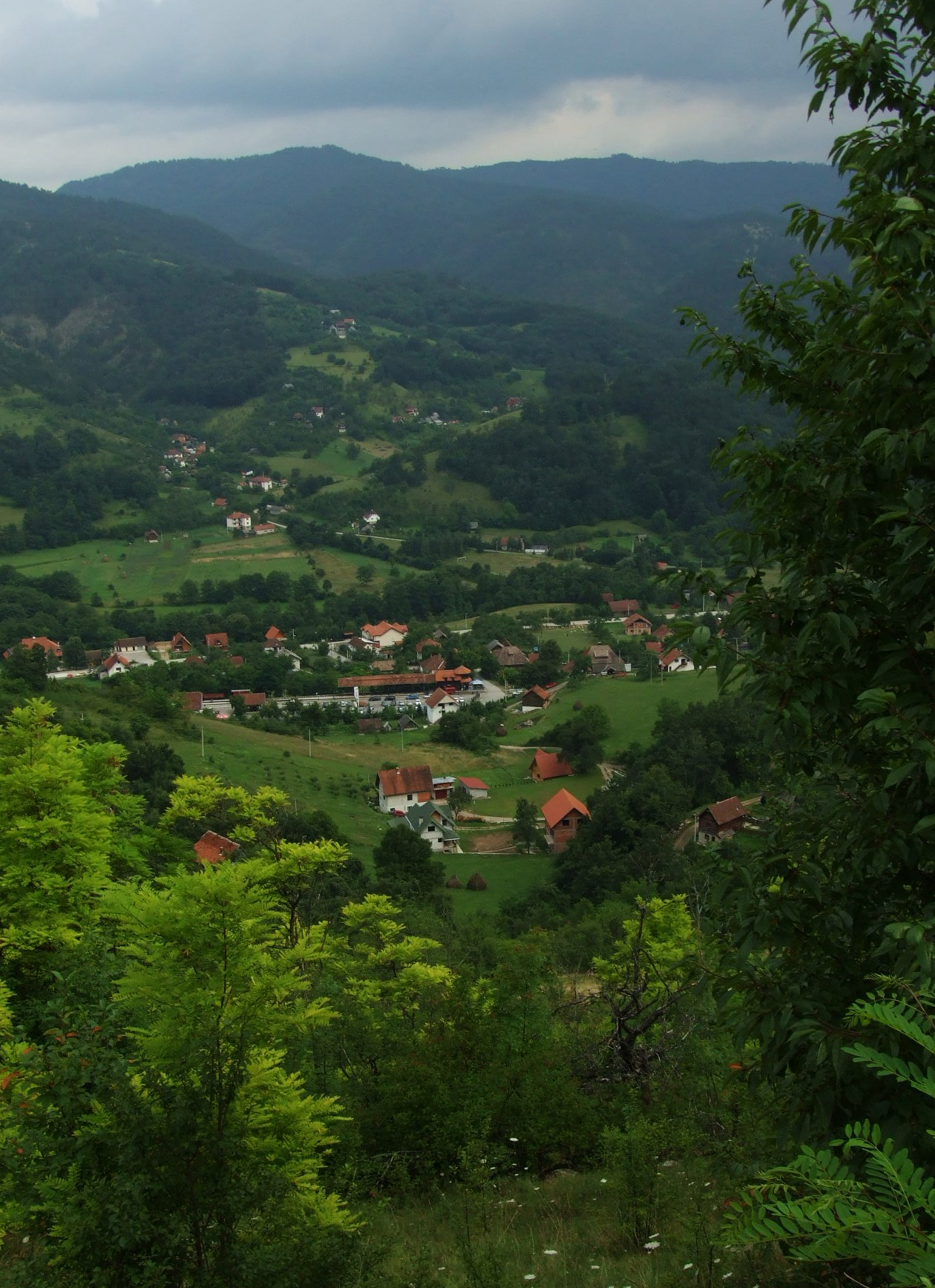 Mokra Gora seen from Drvengrad - view of the train station and surrounding part of the town, Serbia